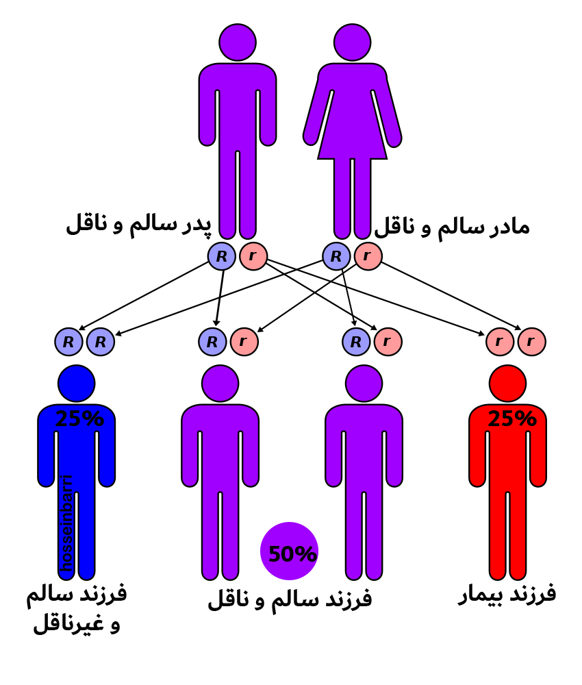 بیماری تانژیرالگوی وراثتی اتوزوم مغلوب دارد